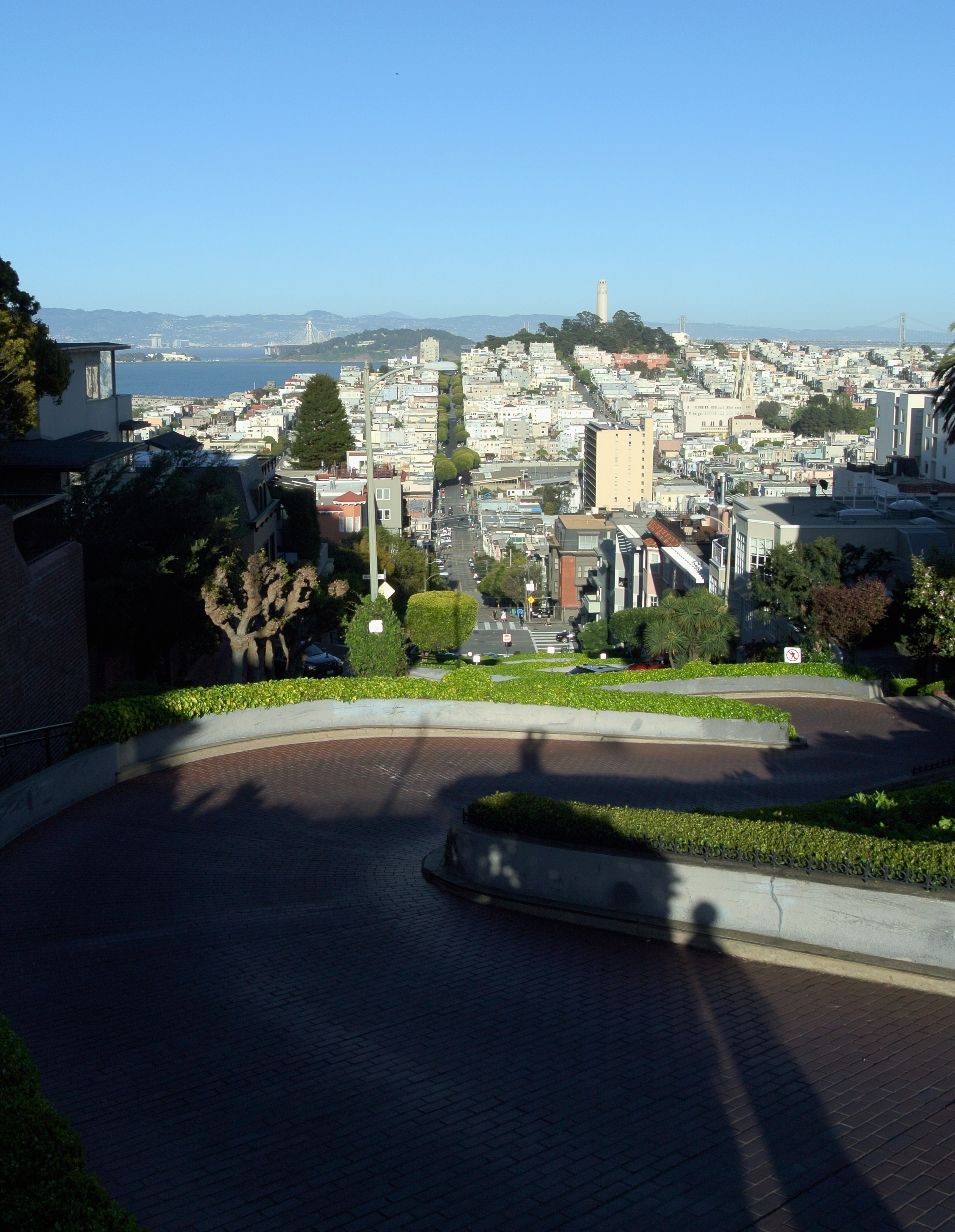 Looking east down Lombard Street, Telegraph Hill and Coit Tower in the background.